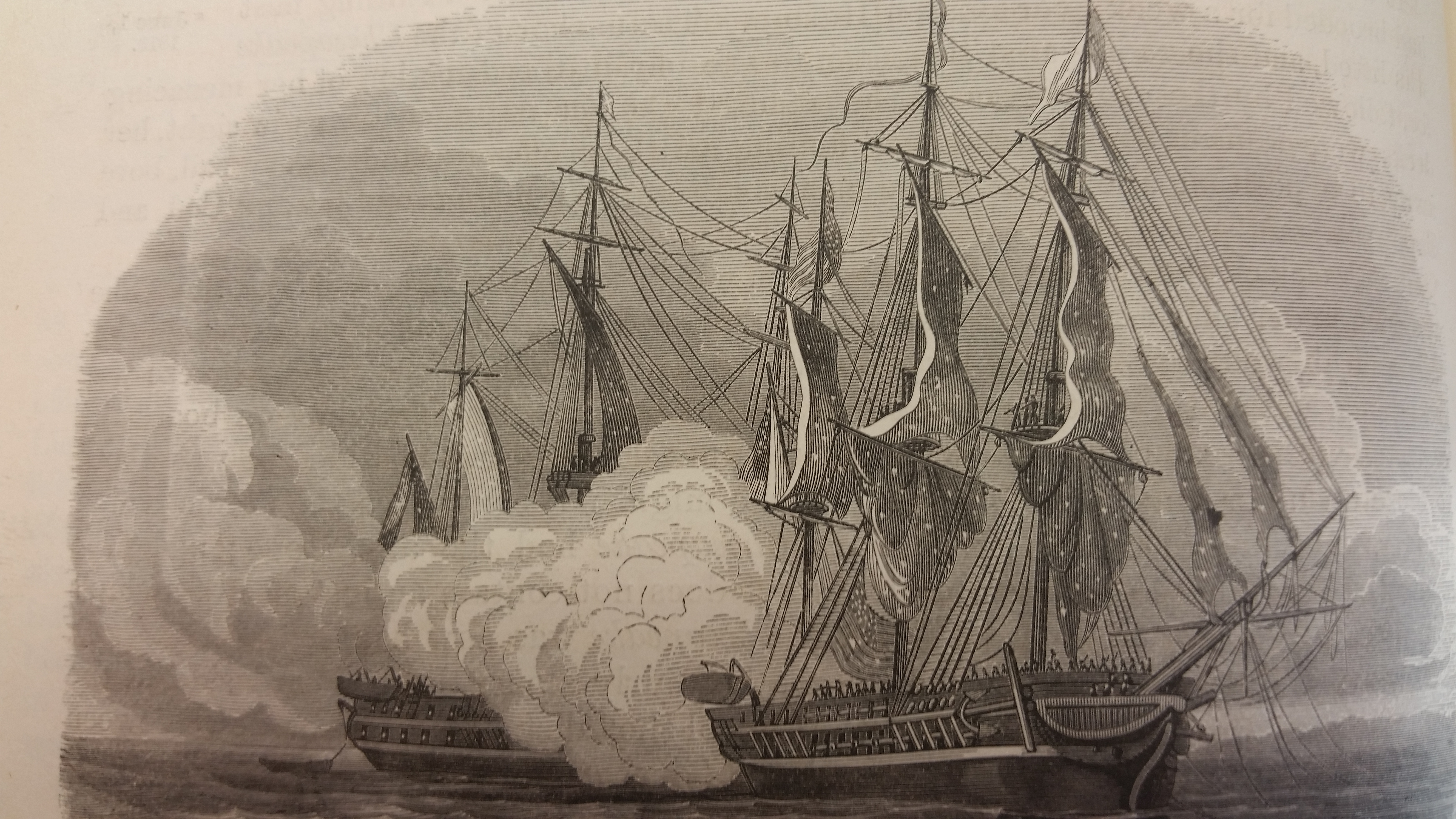 USS Chesapeake